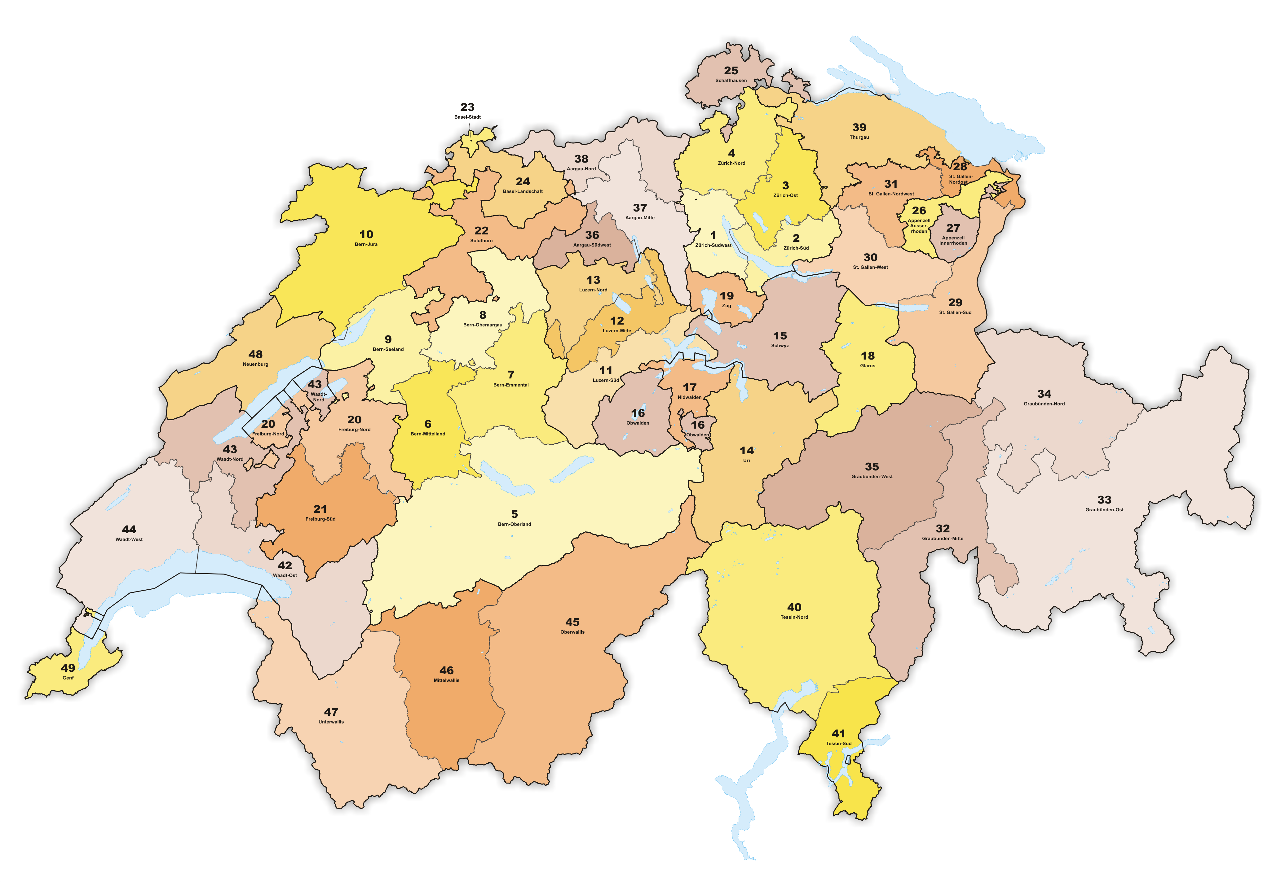 Swiss national council constituencies from 1851 to 1860